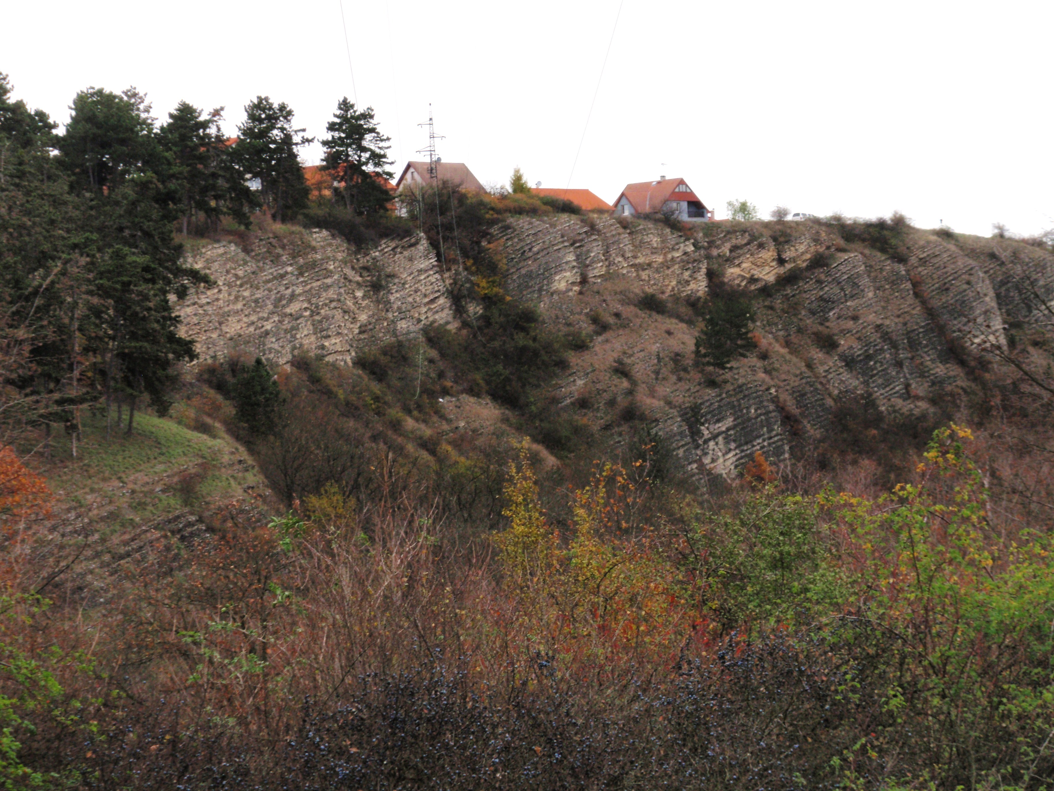 National natural monument Černé rokle in Prague and Prague-West District, Czech Republic